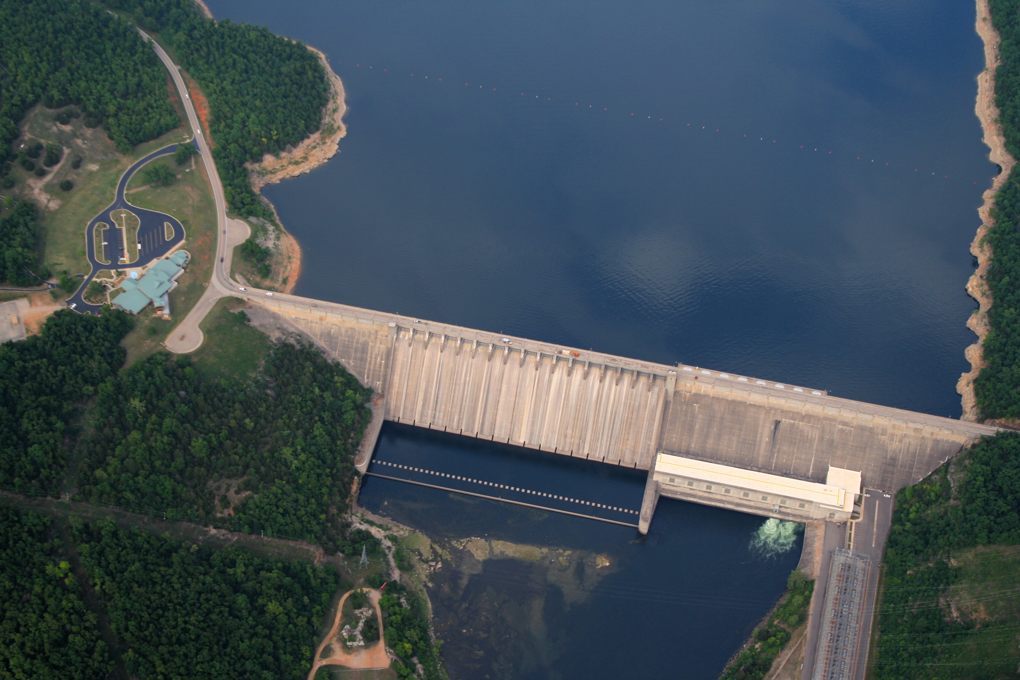 Bull Shoals Dam from the air, April 28, 2012